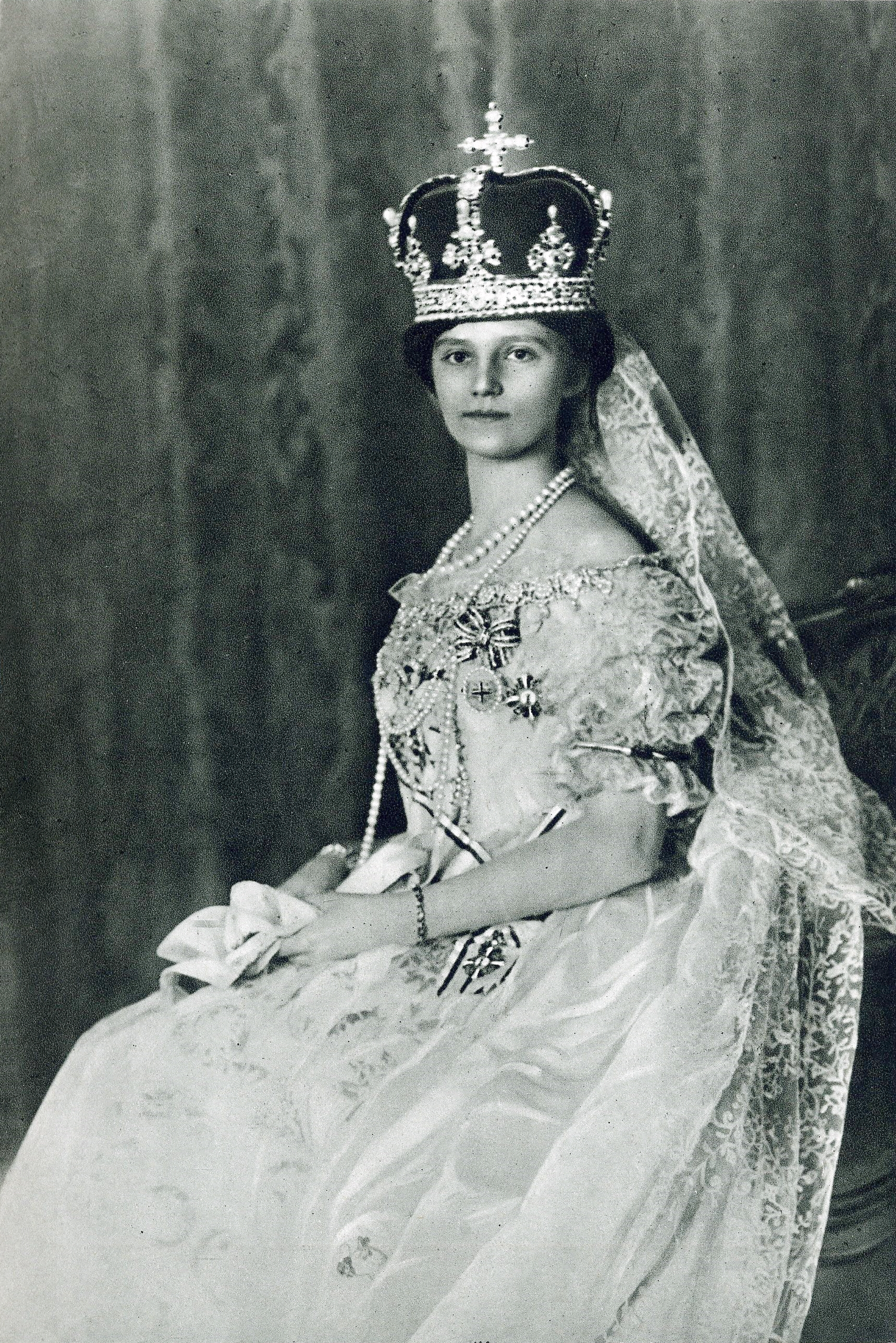 Princess Zita of Bourbon-Parma (1892–1989), by marriage Empress of Austria, Queen of Hungary and Bohemia in traditional Hungarian gown at her coronation.